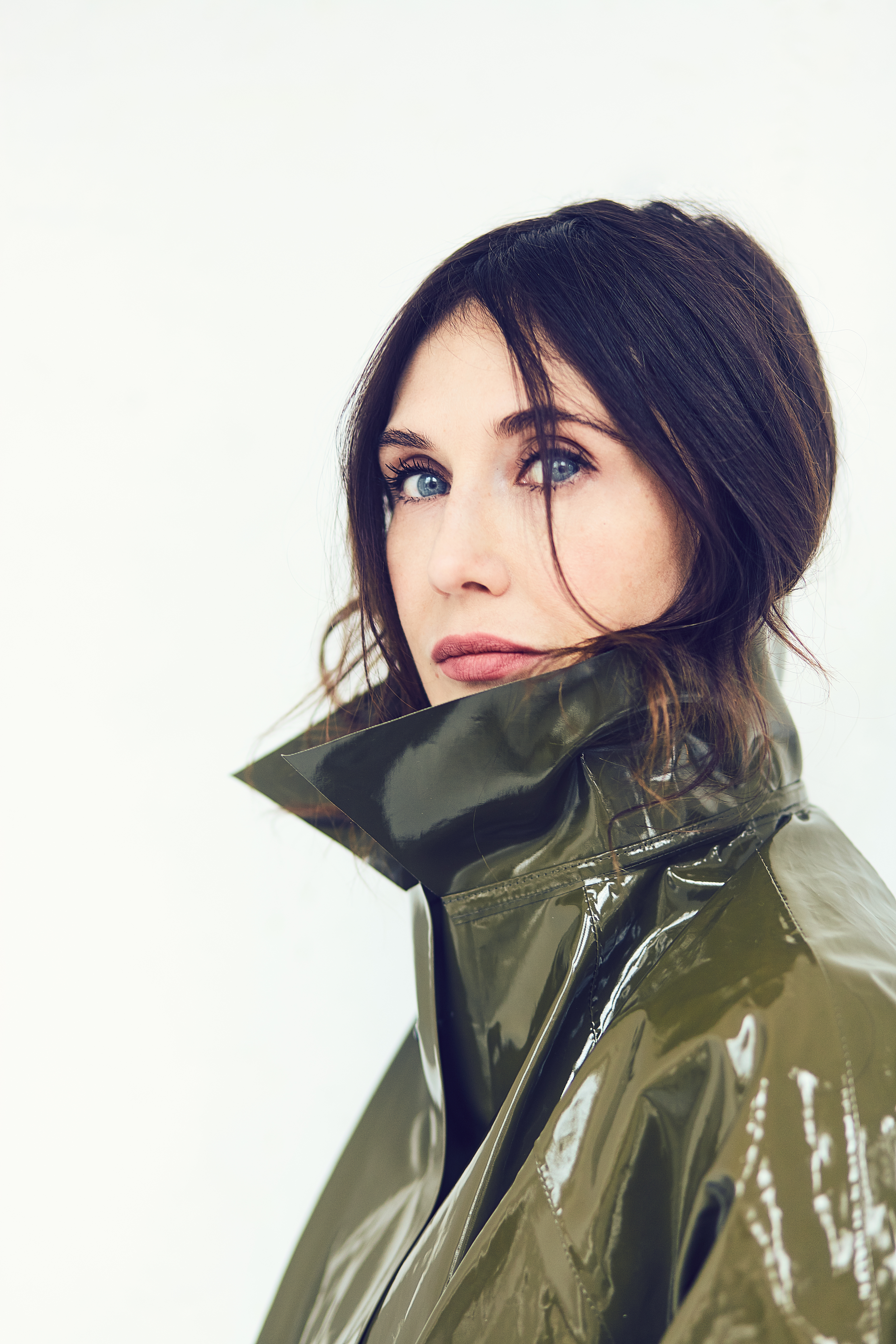 Press photo Carice van Houten